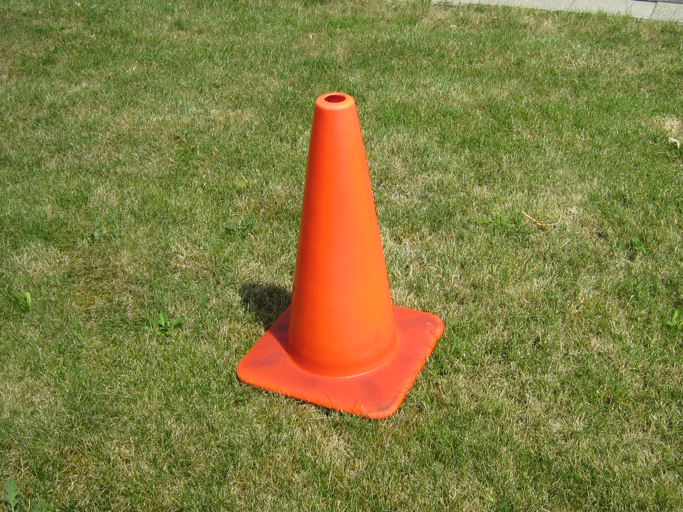 Traffic cone